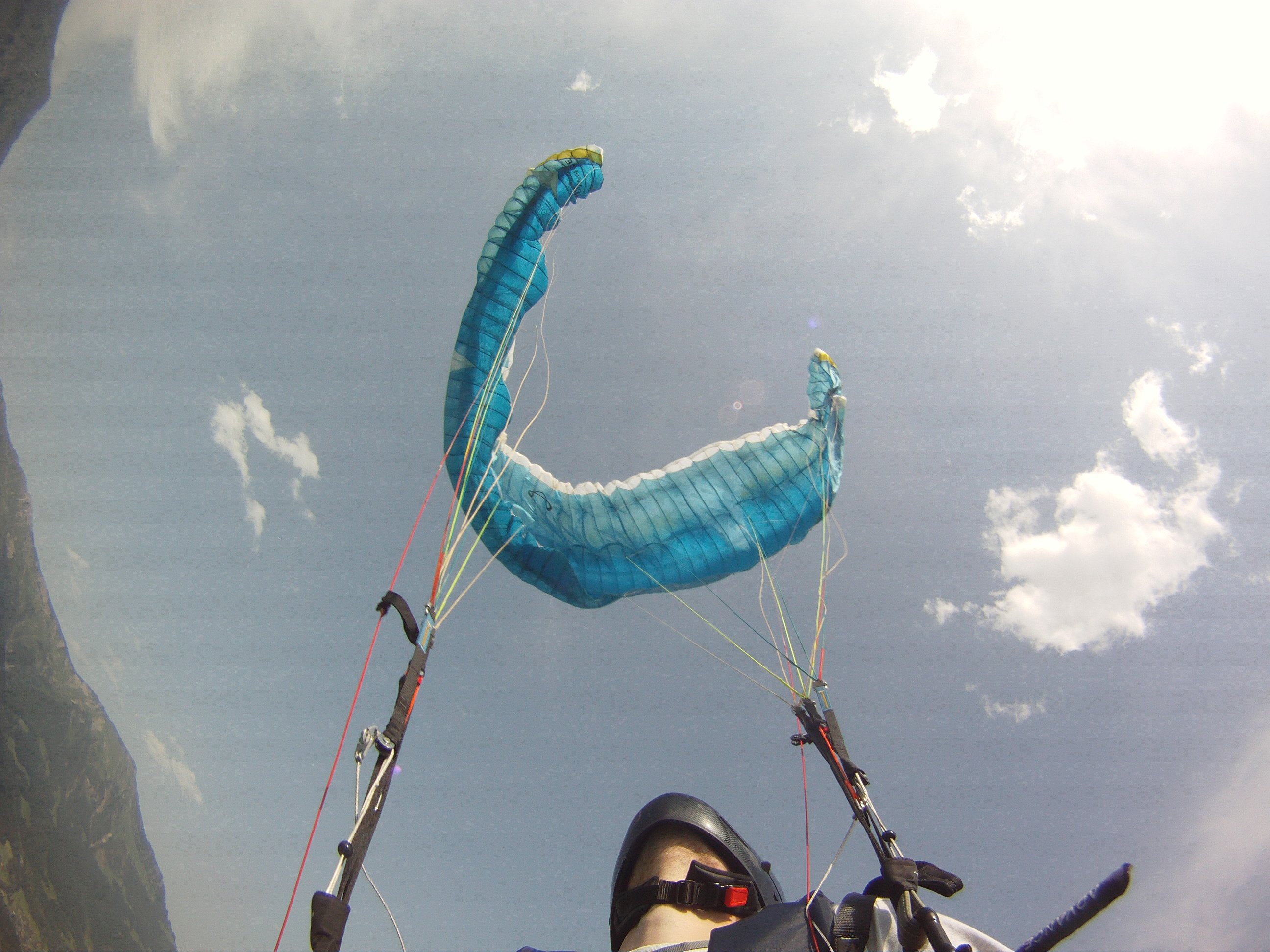 A fullstall with a paraglider (Advance Sigma 8)